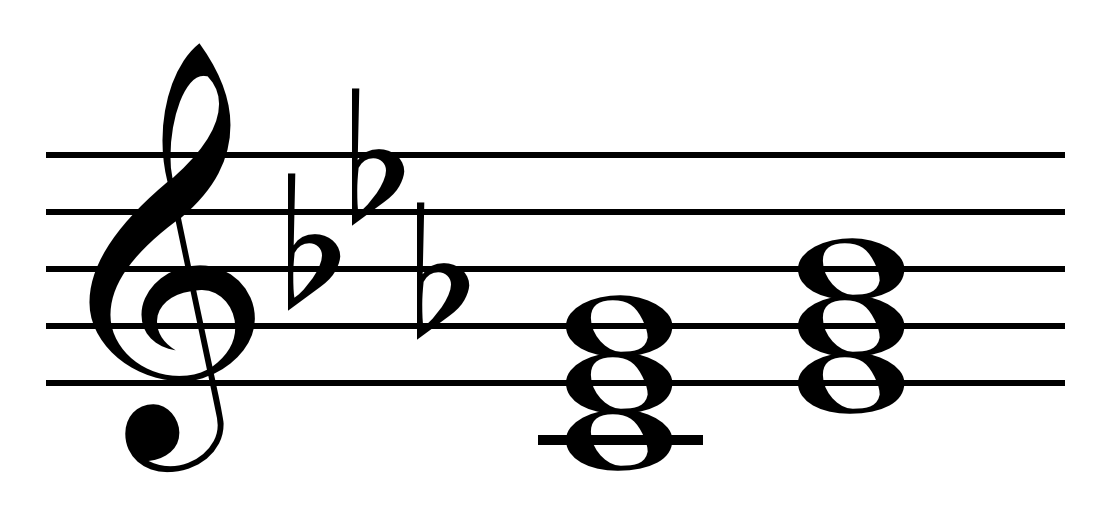 Tonic parallel in C minor. Created by Hyacinth (talk) 00:28, 9 May 2010 using Sibelius 5.